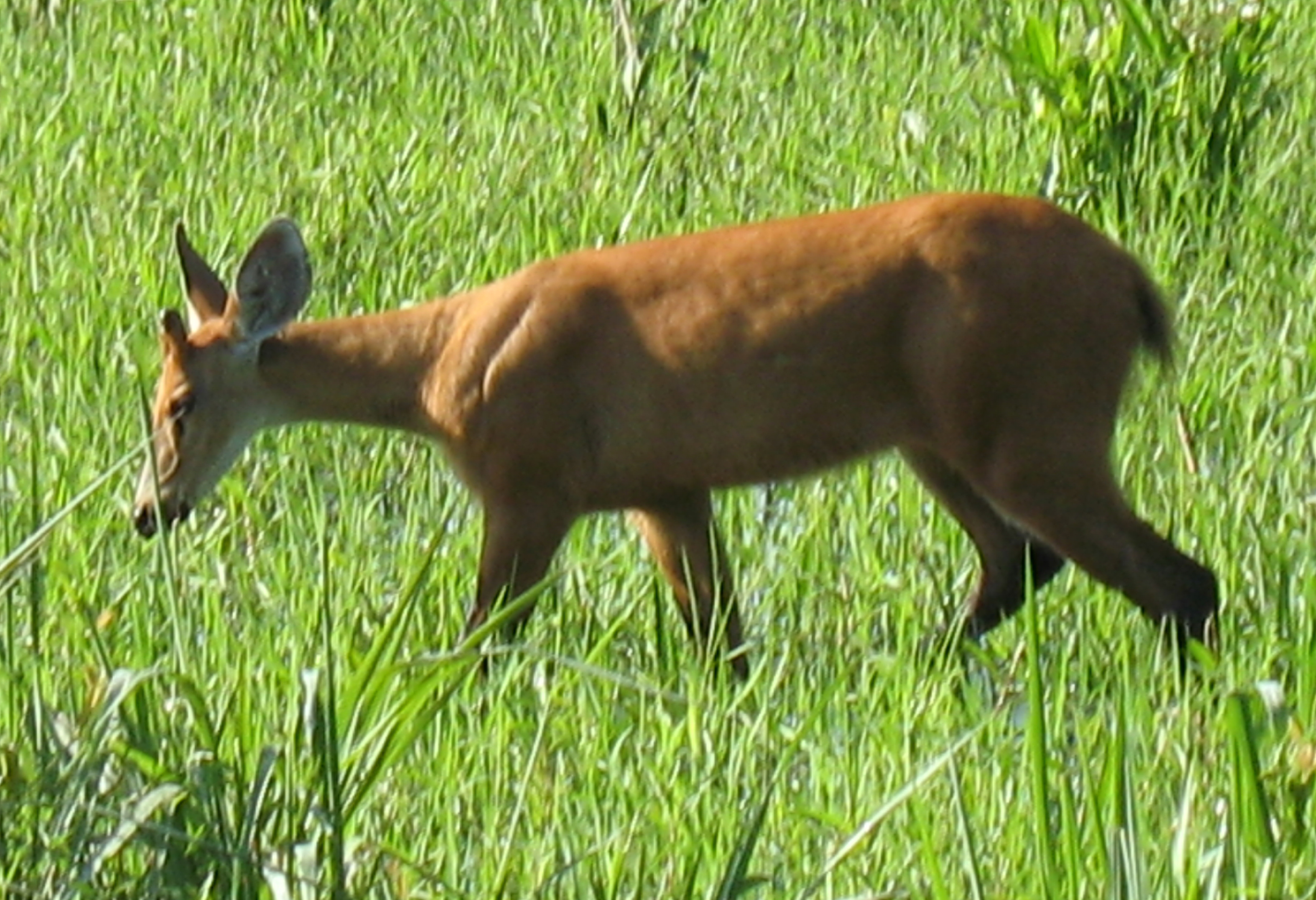 Marsh deer (Blastocerus dichotomus) in the Pantanal region, Brazil